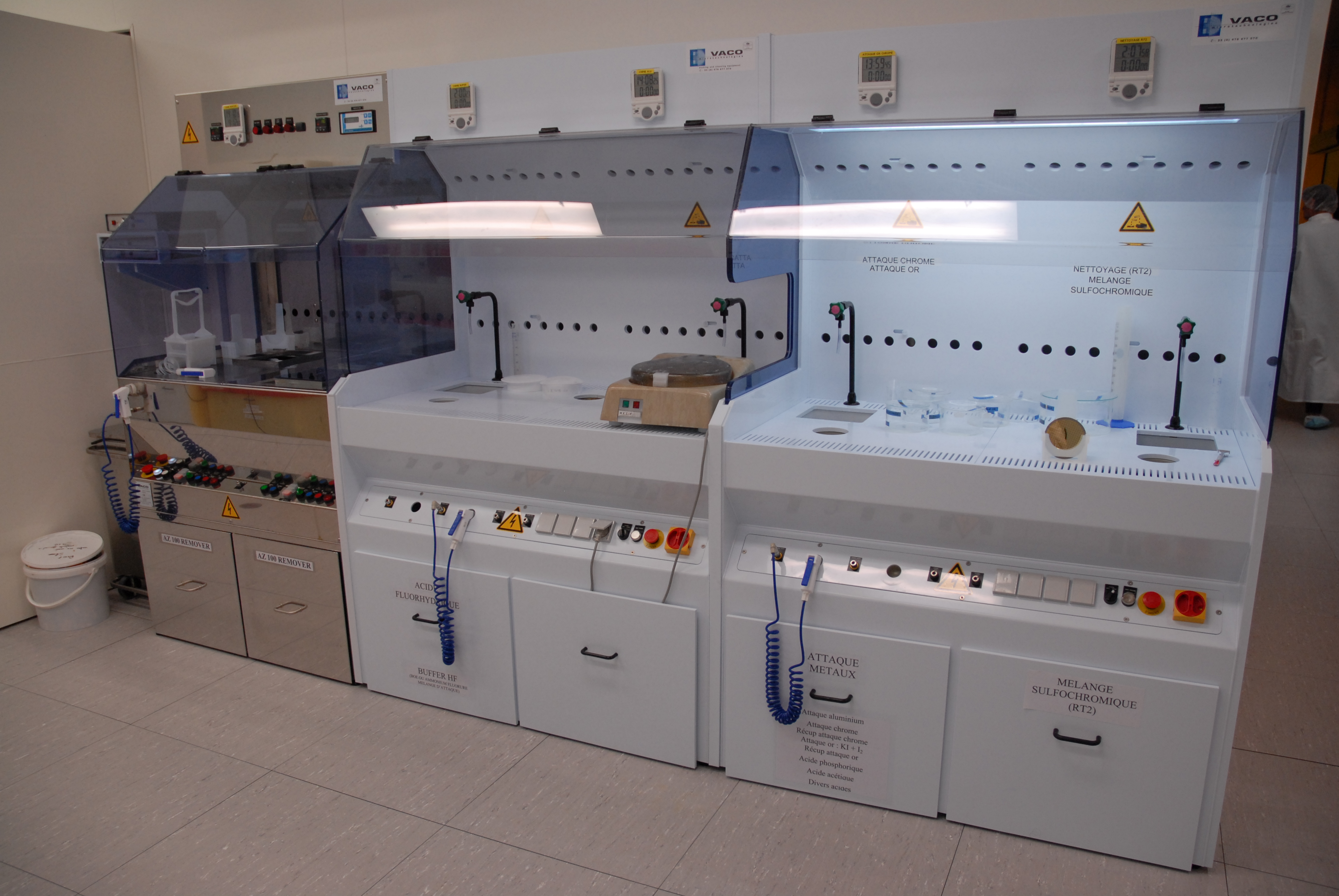 Chromium and gold etching tanks at LAAS-CNRS technological facility in Toulouse, France.